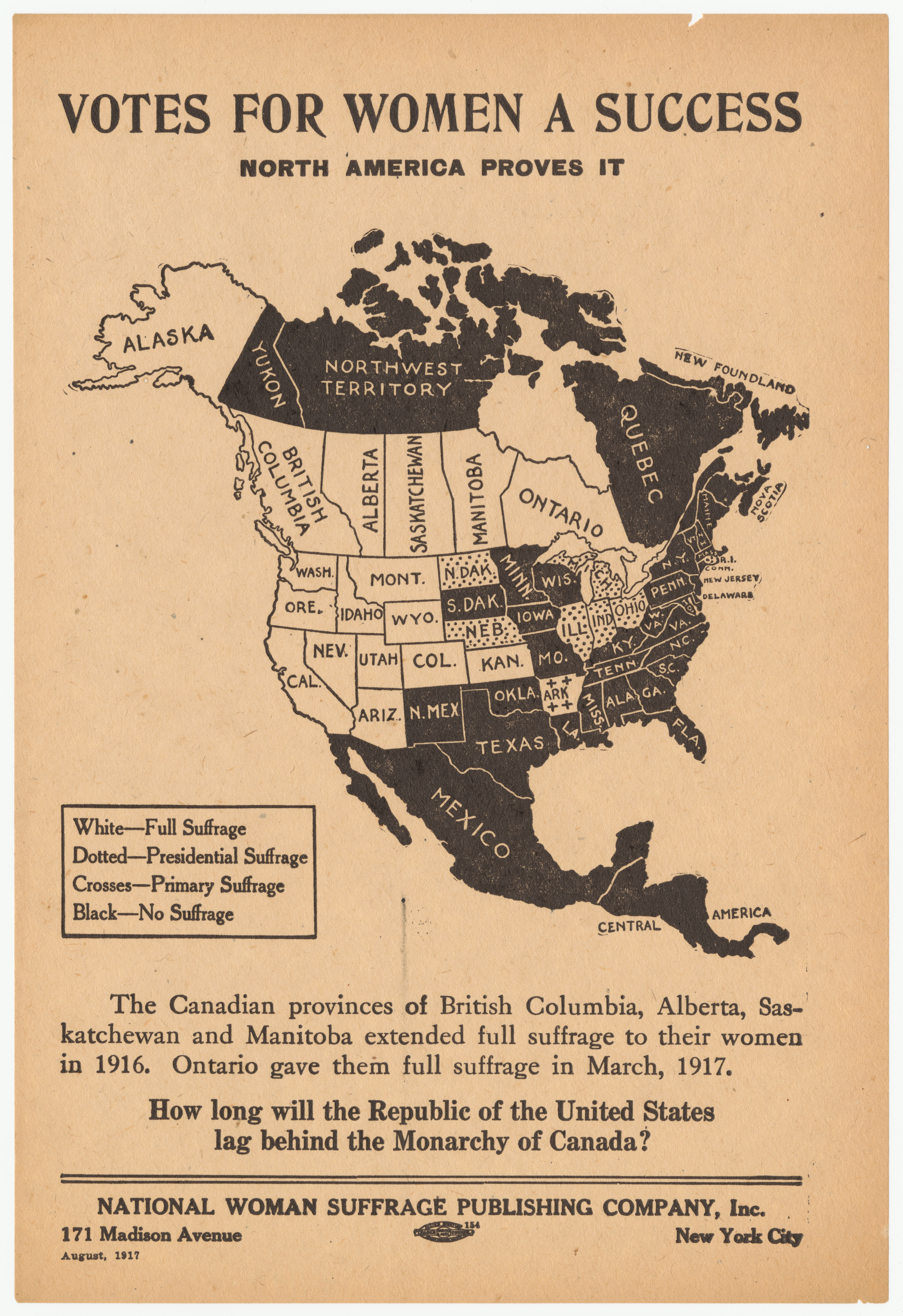 A promotional map of the woman's suffrage movement in the U.S., using the spread of suffrage across the North America to "prove" the "success" of votes for women.